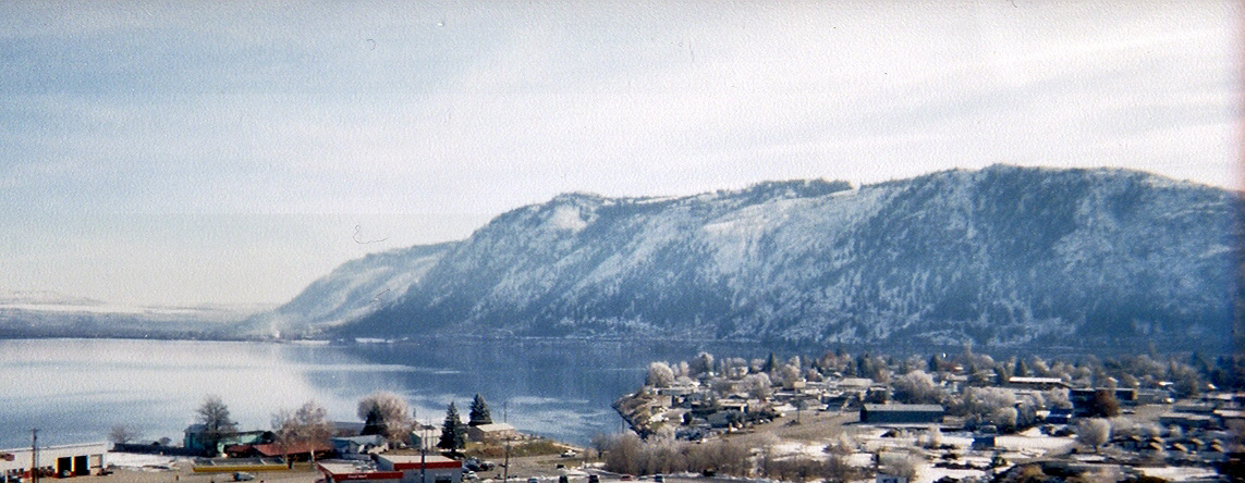 This is a picture of the area surrounding Brewster, Washington.